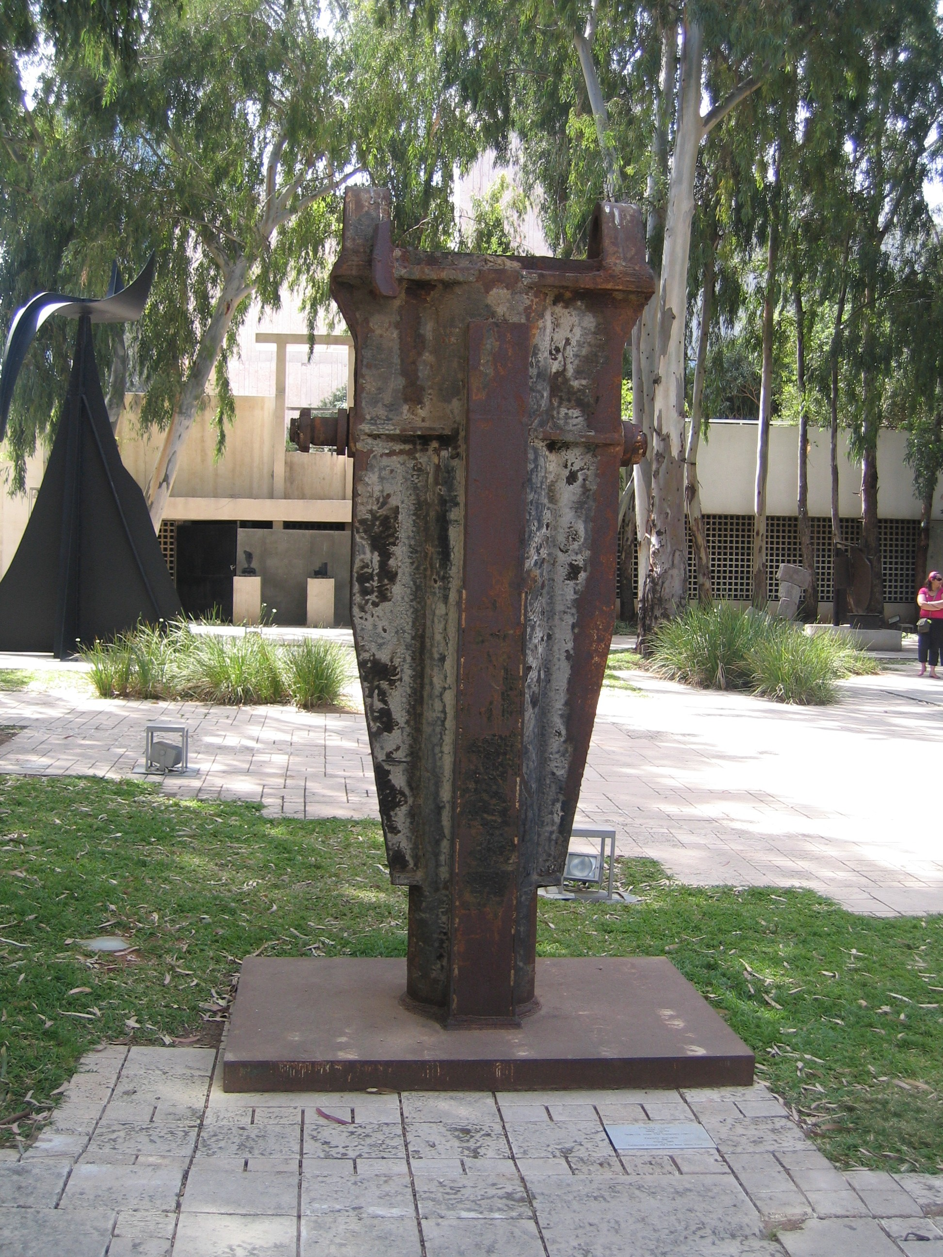 Angel (1993) by Ya'acov Dorchin and Feuille d'Arbre (1974) by Alexander Calder in background